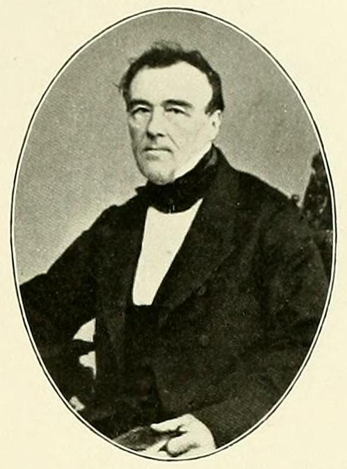 Portrait of the French botanist Emmanuel Le Maout